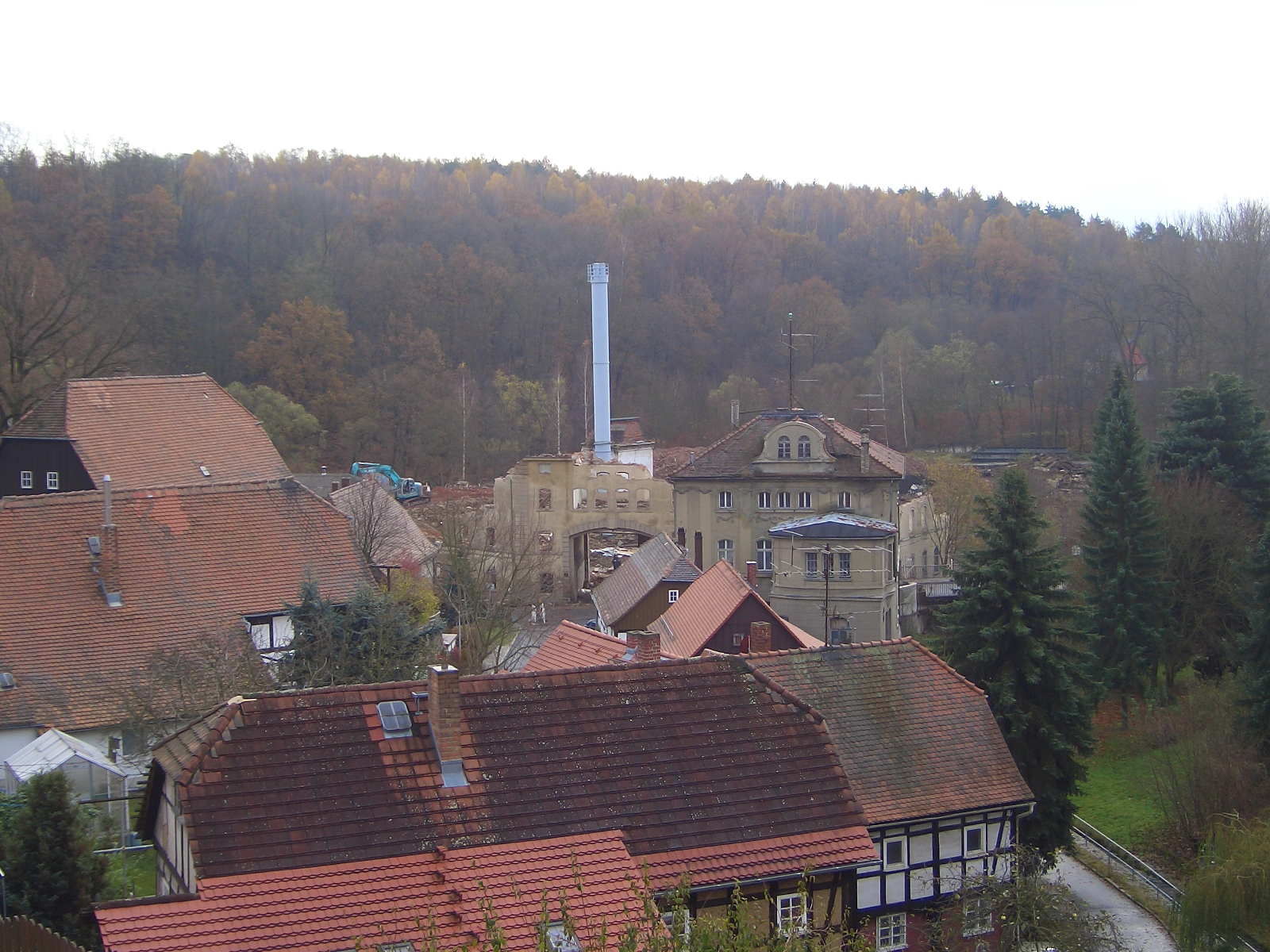 Flax mill Hirschfelde, Saxony, Germany. View on 2009-11-13. After a three years break the demolition was continued at beginning of October 2009